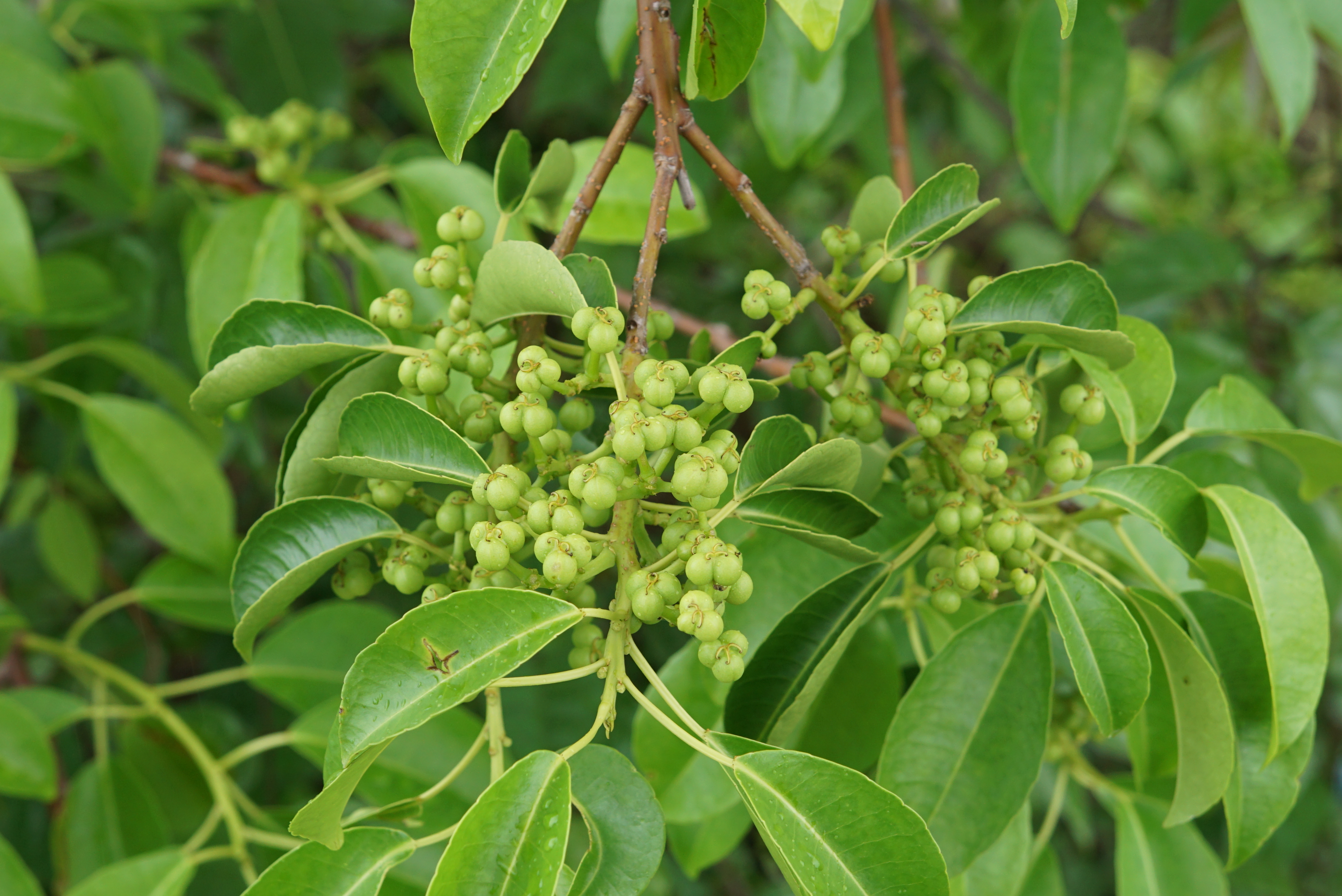 Blind-your-eye mangrove ( Excoecaria agallocha ) . Taken at Kozhikode, Kerala, India.